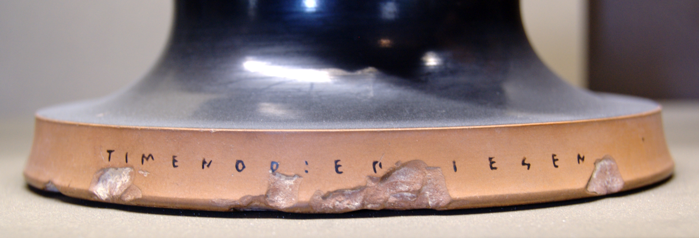 Timenor's signature (ΤΙΜΕΝΟΡ ΕΠΟΙΕΣΕΝ). Fragment of an Attic black-figure cup, ca. 520 BC.